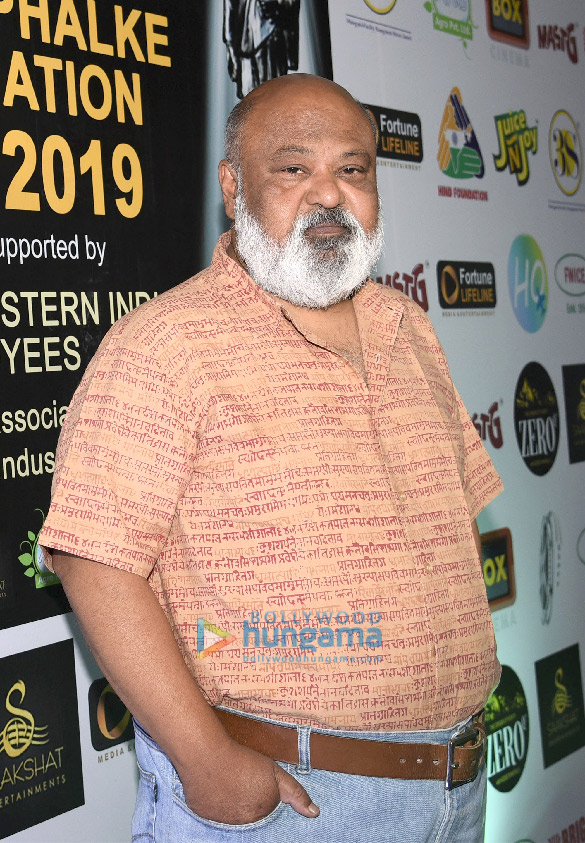 Saurabh Shukla graces Dadasaheb Phalke Film Foundation Awards 2019